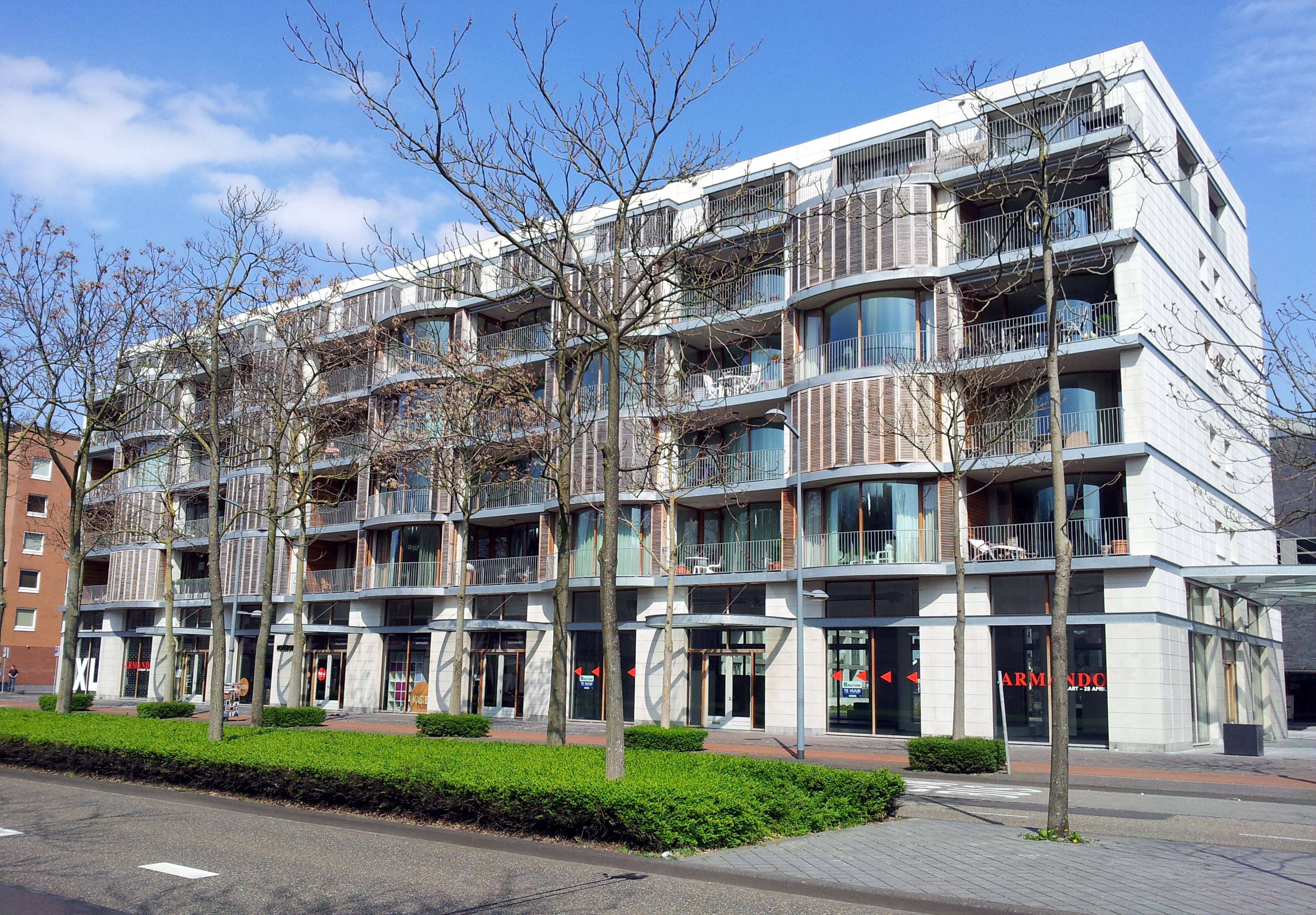 Maastricht, the Netherlands. View of 'Maison Céramique', designed by Charles Vandenhove, one of the appartment buildings on Avenue Céramique, the main avenue in the newly rebuilt Céramique district in Maastricht.